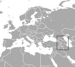 Armenian Shrew (Crocidura armenica) range